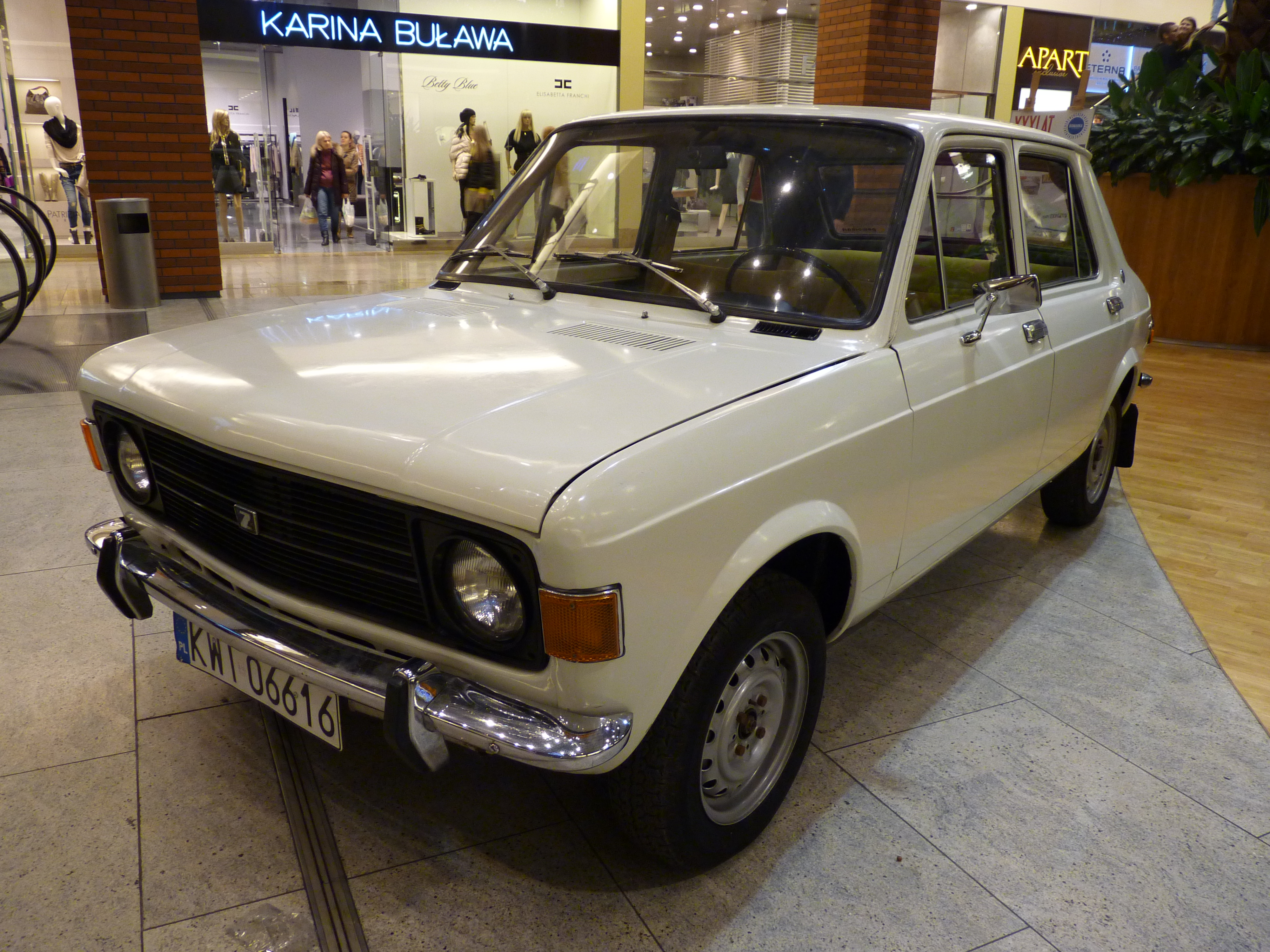 Zastava 1100p during „XXX lat motoryzacji PRL” exhibition at Bonarka City Center in Kraków.